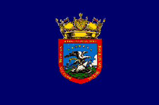 Flag of the Venezuelan Navy